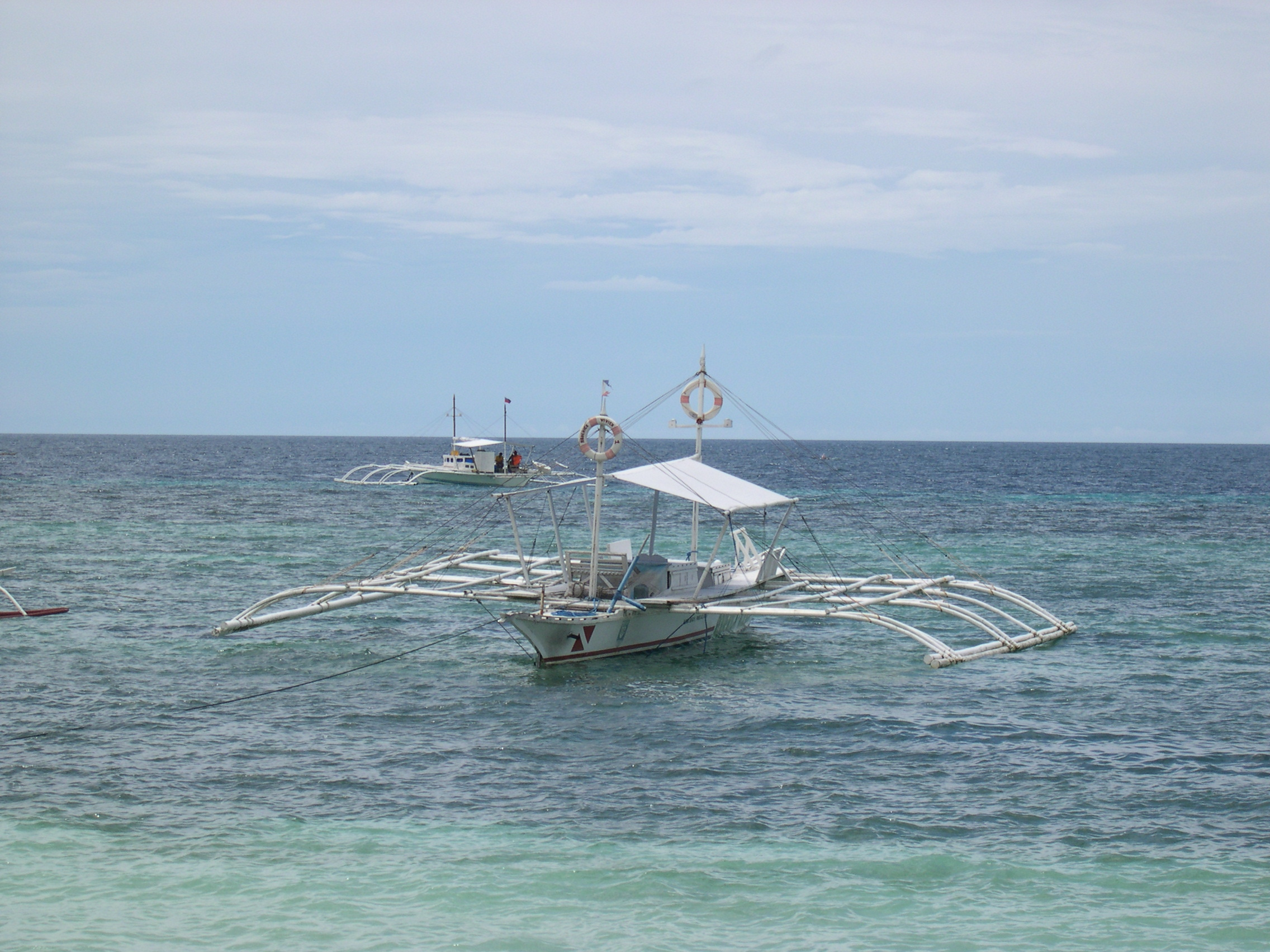 Some outriggers used for diving for the coast of Panglao Island in the Philippines. Picture taken by Magalhães on March 25th 2006